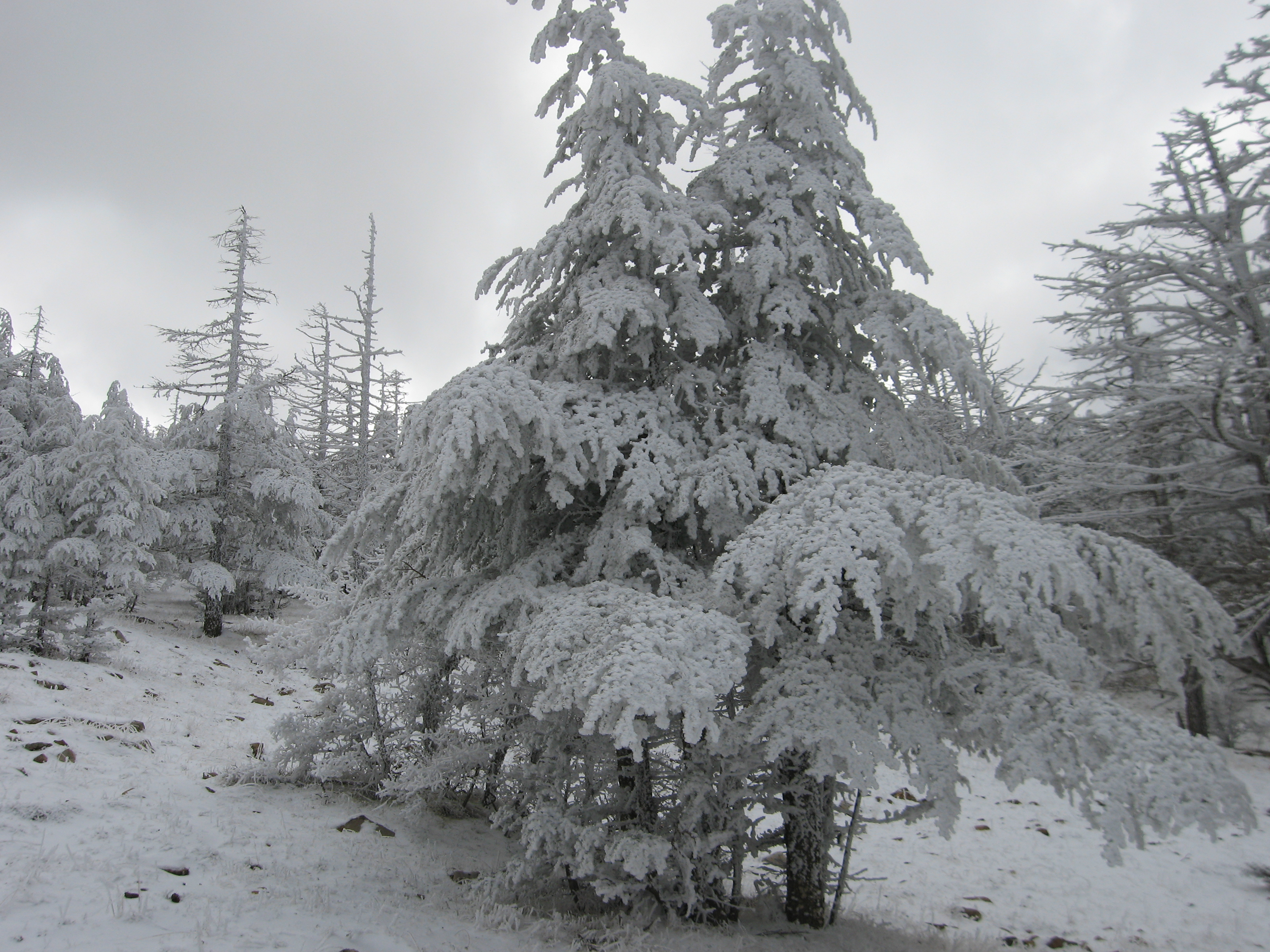 Cedrus libani subsp. atlantica, Morocco